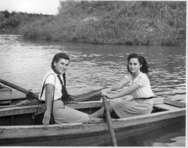 Pnina Dromi (later Pnina Gary) & Batya Ben-Barak (later Batya Shalev) sailing in the Yarkon River on their first visit to Tel-Aviv, Sukkot 1944.